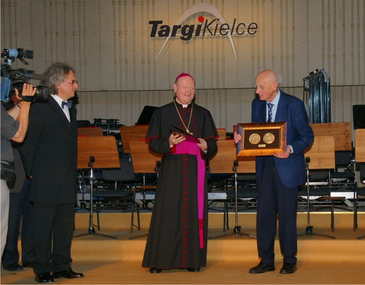 June 8, 2009, during the fair SACROEXPO in Kielce, Wojciech Kilar received, at the hands of HE Archbishop Gianfranco Ravasi, medal Per artem ad Deum (Through Arts to God), awarded by the Pontifical Council for Culture